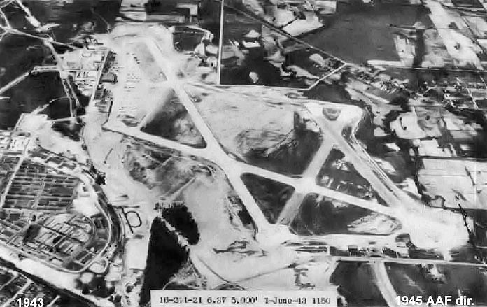 Jackson Army Airbase Mississippi 1943